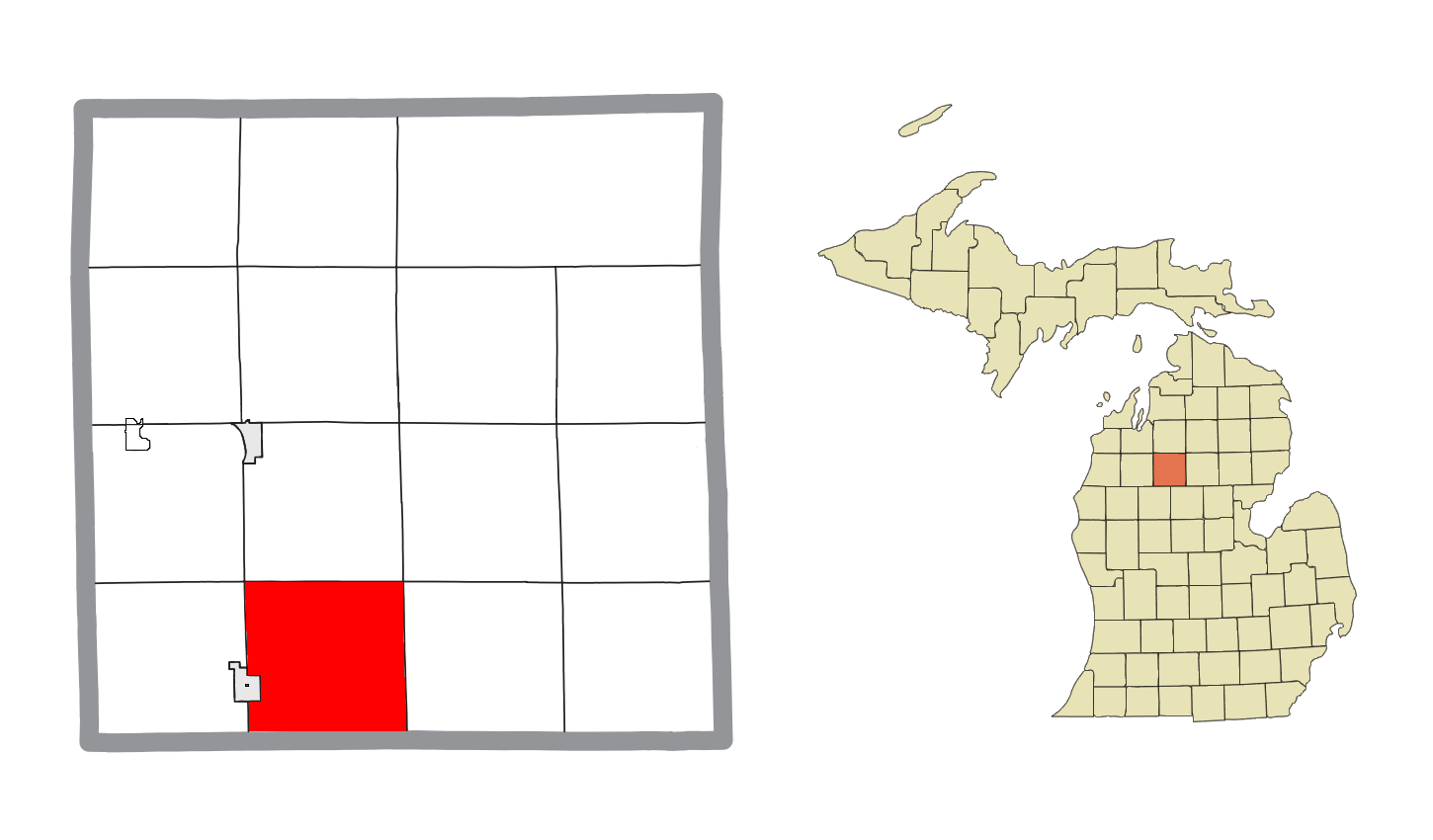 Riverside Township, MI